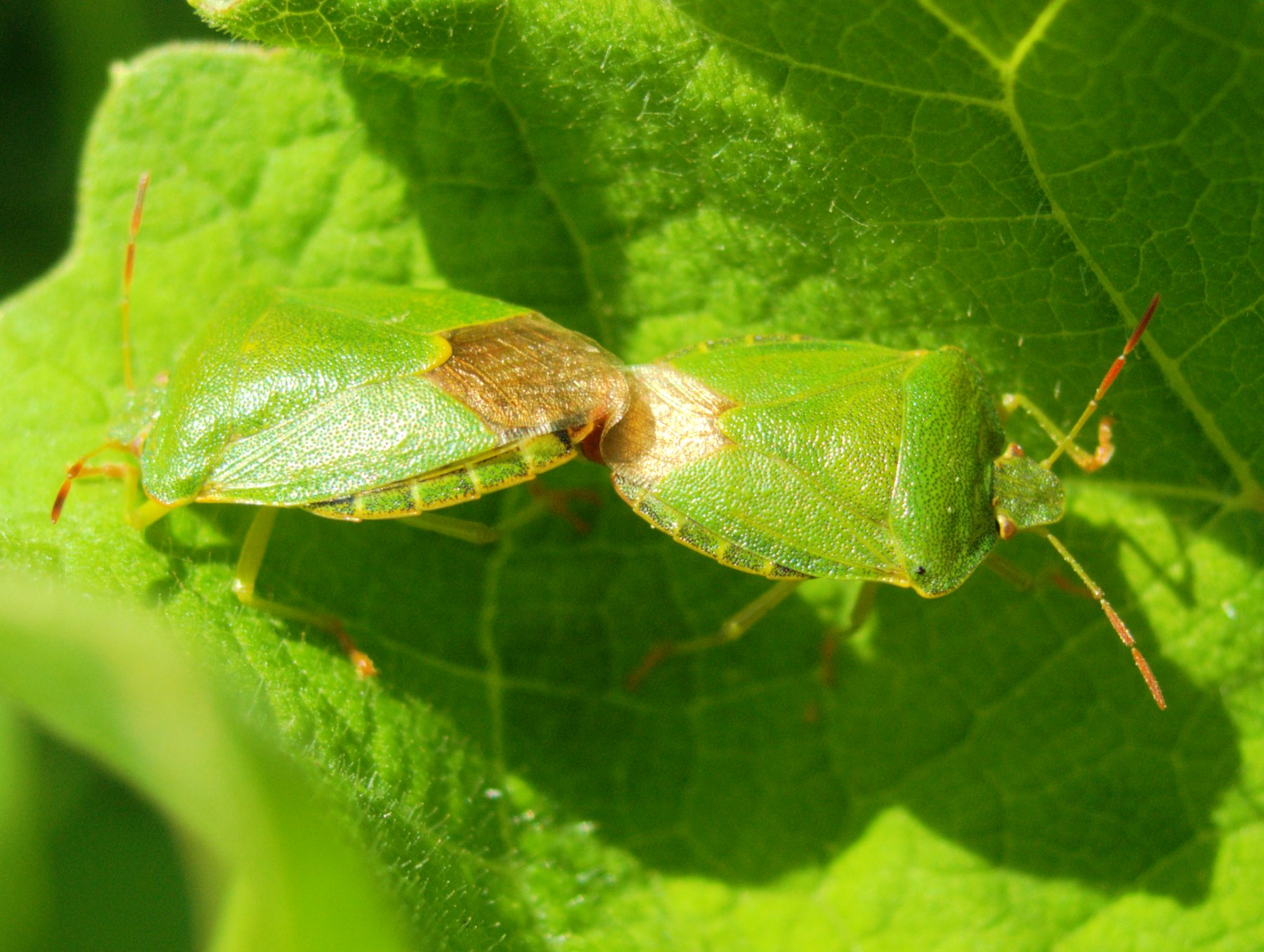 Name: Palomena prasina. Family: Pentatomidae. Location. Münster, NRW, Germany